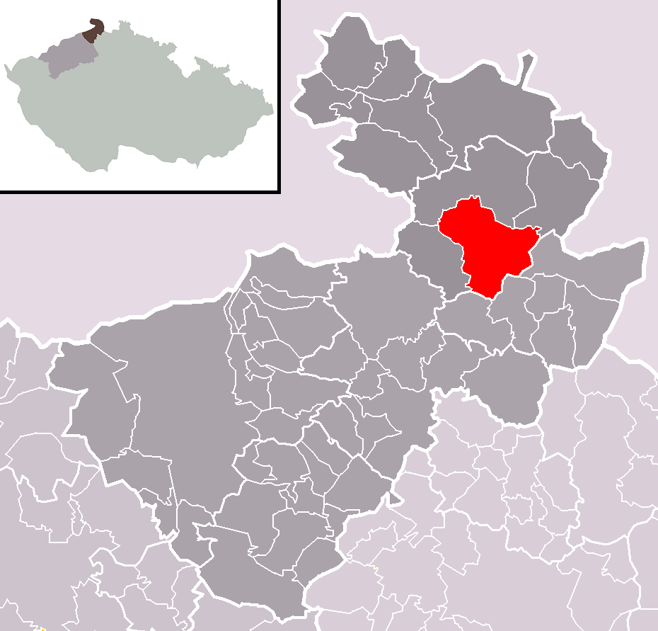 Location of Krásná Lípa town within Děčín District and administrative area of Rumburk as a Municipality with Extended Competence.